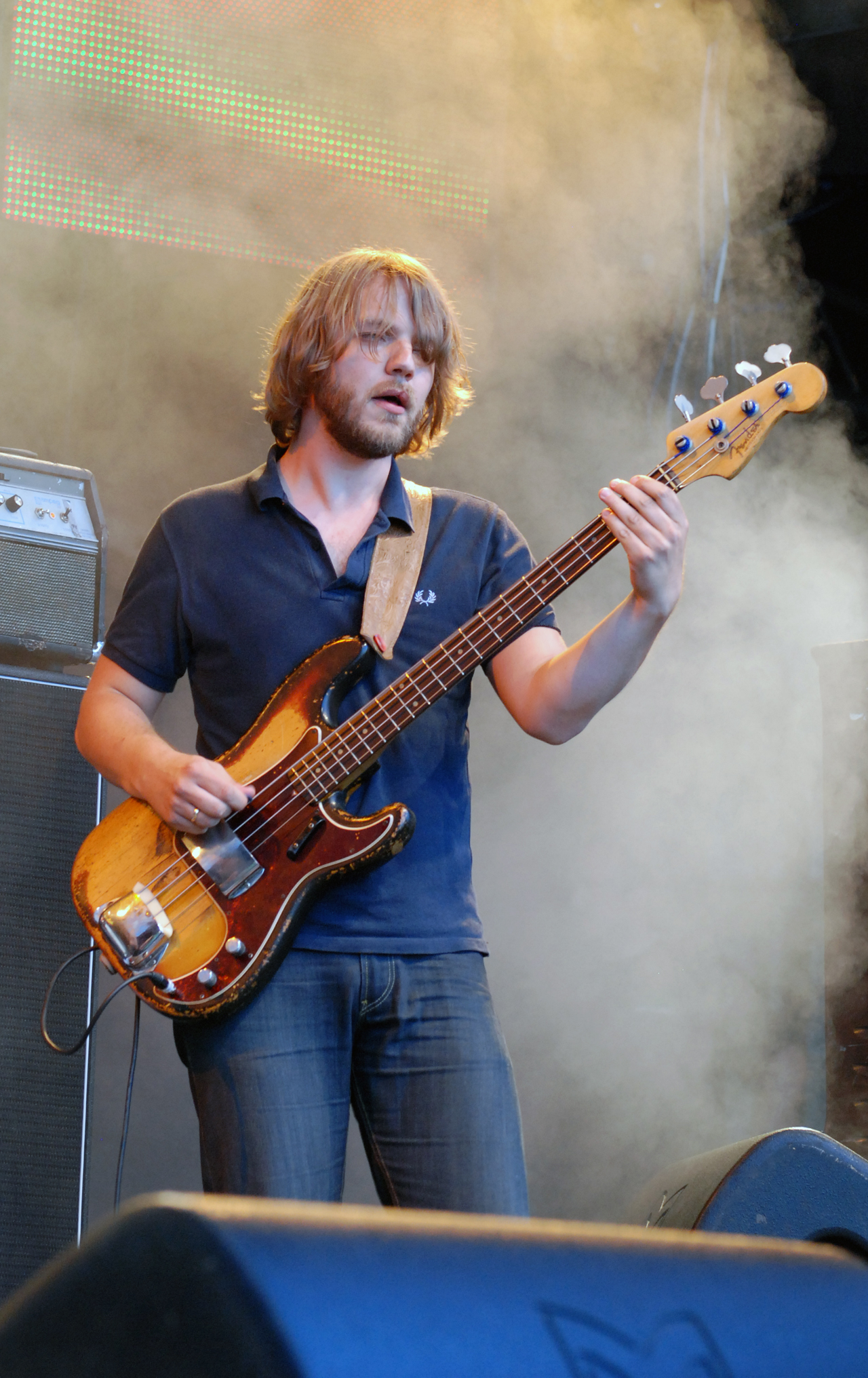 Nikolai Eilertsen of Knut Reiersrud band live at Hamar Music Festival 2009.